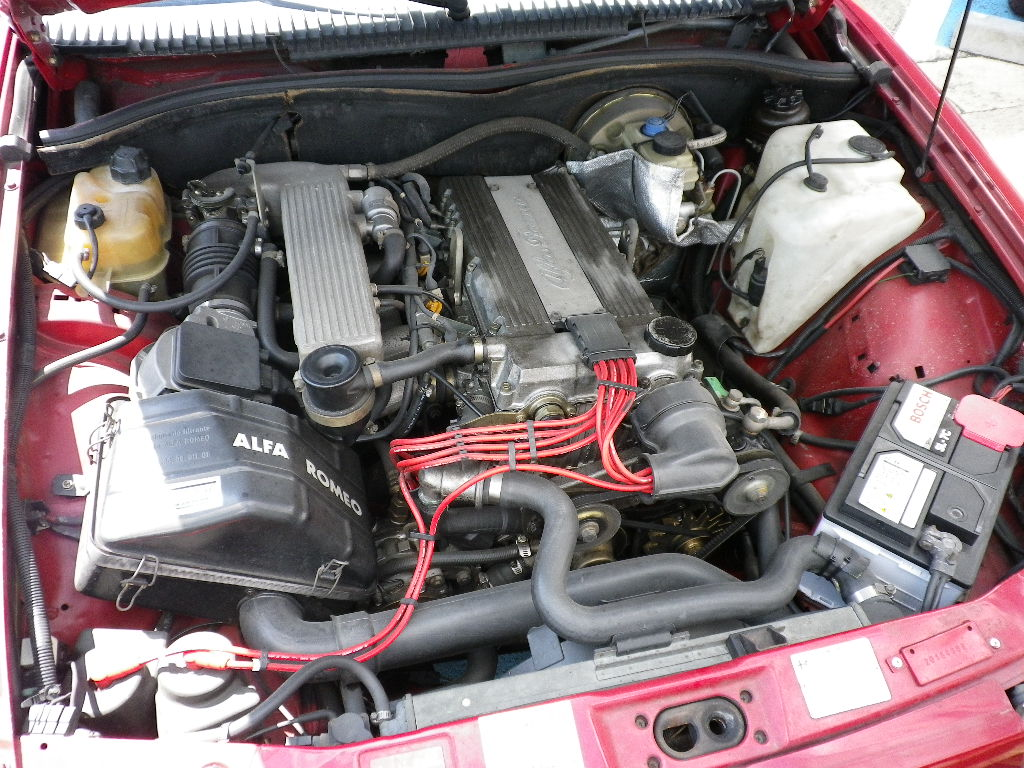 Alfa Romeo Twin Spark engine Pentax Optio H90